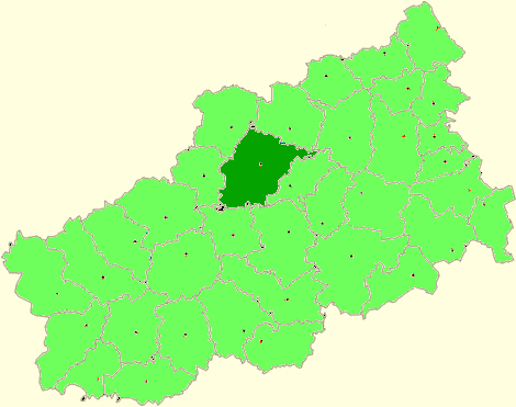 Tver Oblast map by Al Silonov